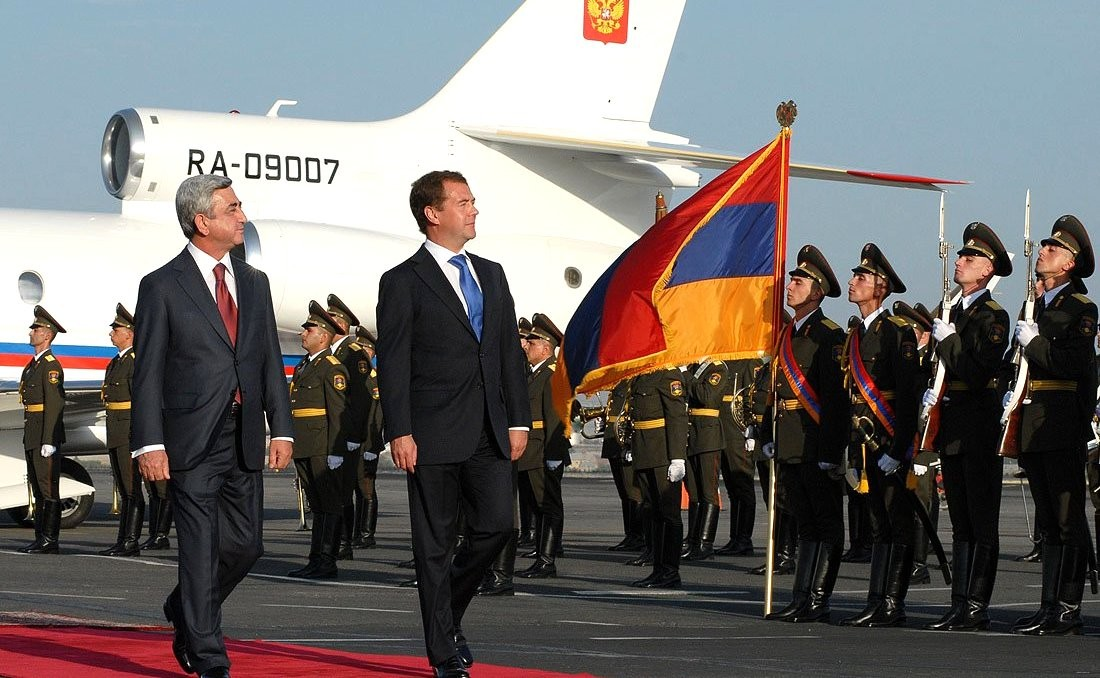 Dmitry Medvedev arrived in Armenia on a state visit. With President of Armenia Serzh Sargsyan.